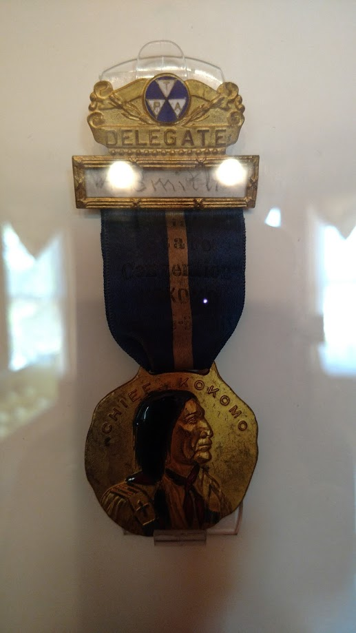 This is a photograph I took of a medallion on display at the Seiberling Mansion in Kokomo, Indiana. The sign underneath the medallion reads as follows: "Chief Kokomo Medallion This medallion was created and distributed to the members of the Travelers' Protective Association at their May 1916 meet in Kokomo." The medallion is a fictionalized representation of the legendary Miami chieftain Ma-Ko-Ko-Mo. It inaccurately portrays him wearing the garb of a western plains Indian.